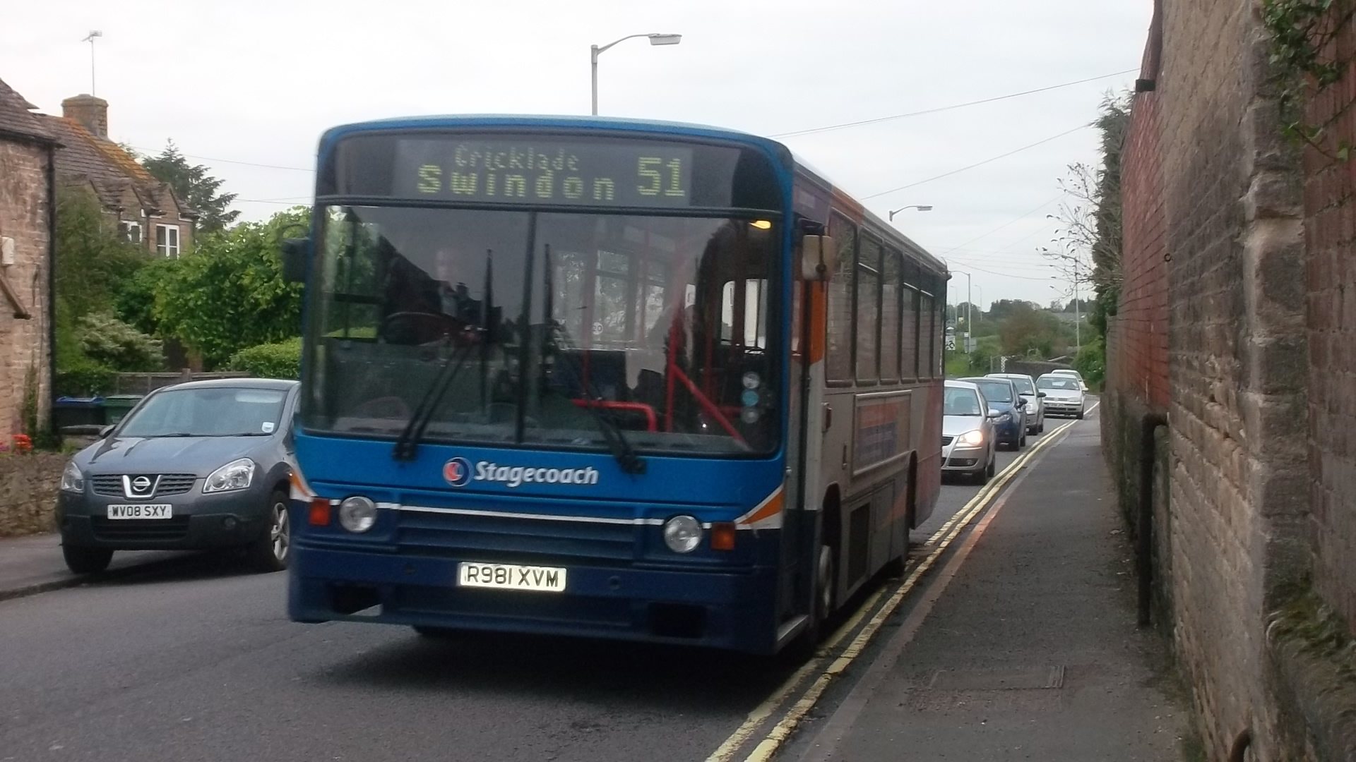 A Volvo B10M, bodied with Alexander PS B49F, fleet no. 20956, Reg: R956 BVM. it serve 51 in Stagecoach in Swindon from Swindon to Cirencester, continues with 151 to Cheltenham.中文（香港）: 富豪B10M,亞歷山大PS車身, 這巴士是屬於捷達巴士車隊(英國西部,斯溫頓), 車隊編號:20956,車牌號碼;R956 BVM